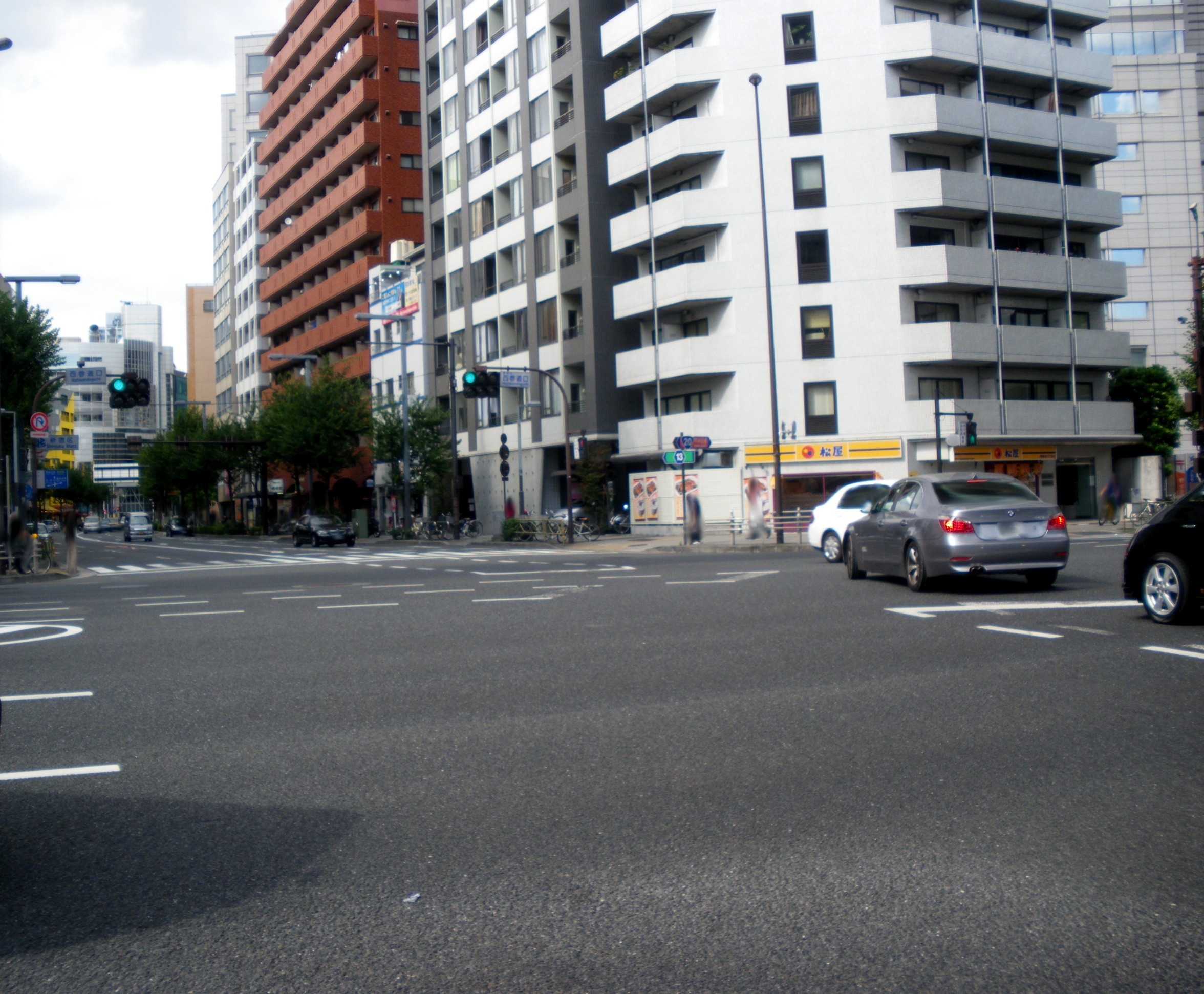 A photo of Nishisandoguchi Intersection,Shinjuku-ku and shibuya-ku,Tokyo,Japan.